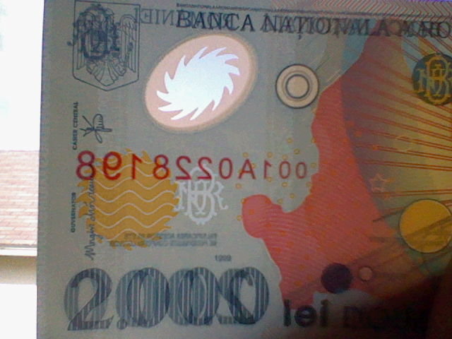 A close up of the security features in the Two thousand lei